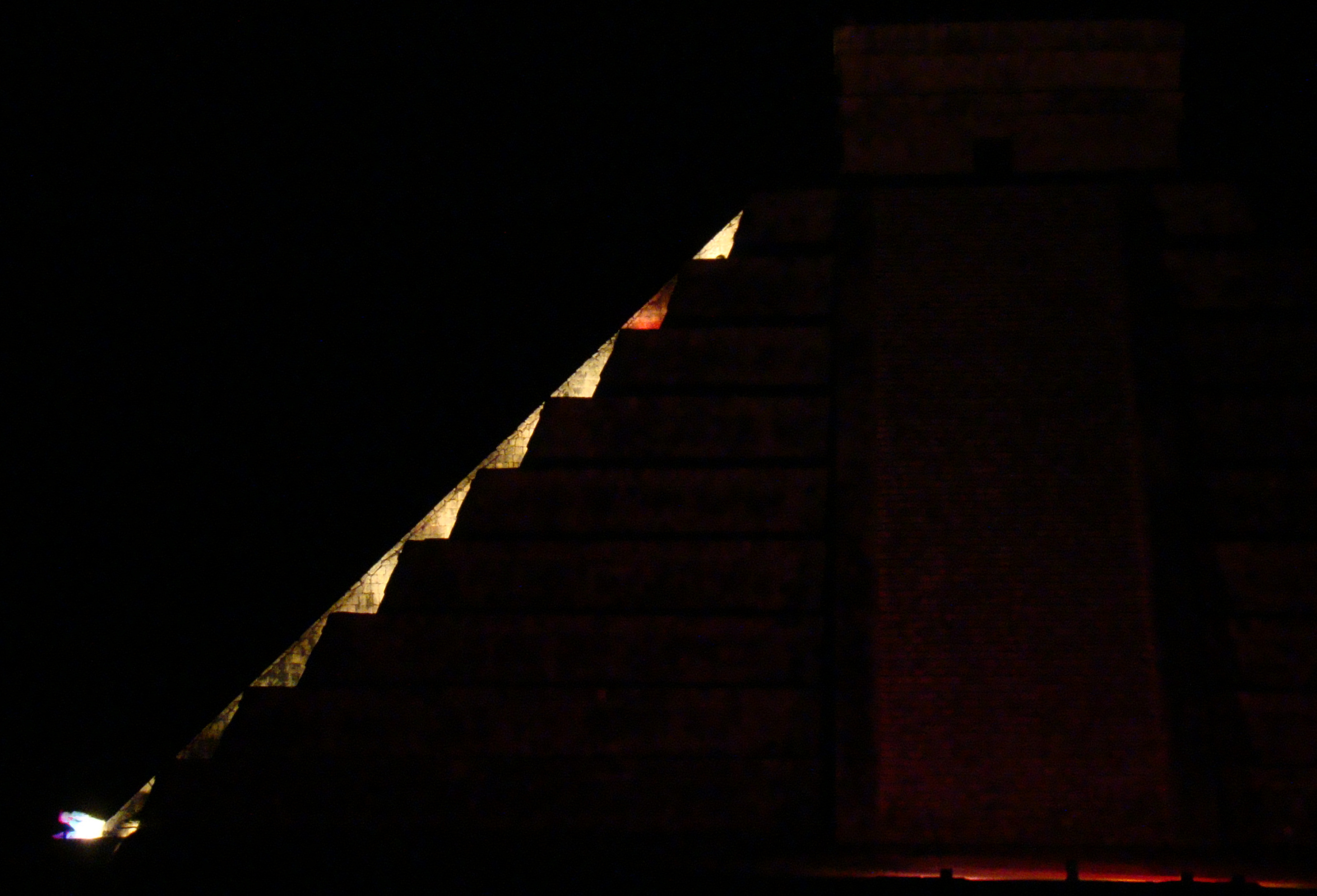 A demonstration by artificial light of how a plumed serpent can be seen along the edge of the staircase leading up to the top of the Chichen Itza El Castillo pyramid. The same effect can be seen on the Spring and Autumn equinoxes, at the rising and setting of the sun along the west side of the north staircase. On these two annual occasions, the shadows from the corner tiers slither down the northern side of the pyramid with the sun's movement to the serpent's head at the base.